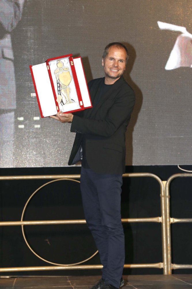 Mattias Löw with the Best Director Award at Palermo International Sport Film Festival in Italy 2014.